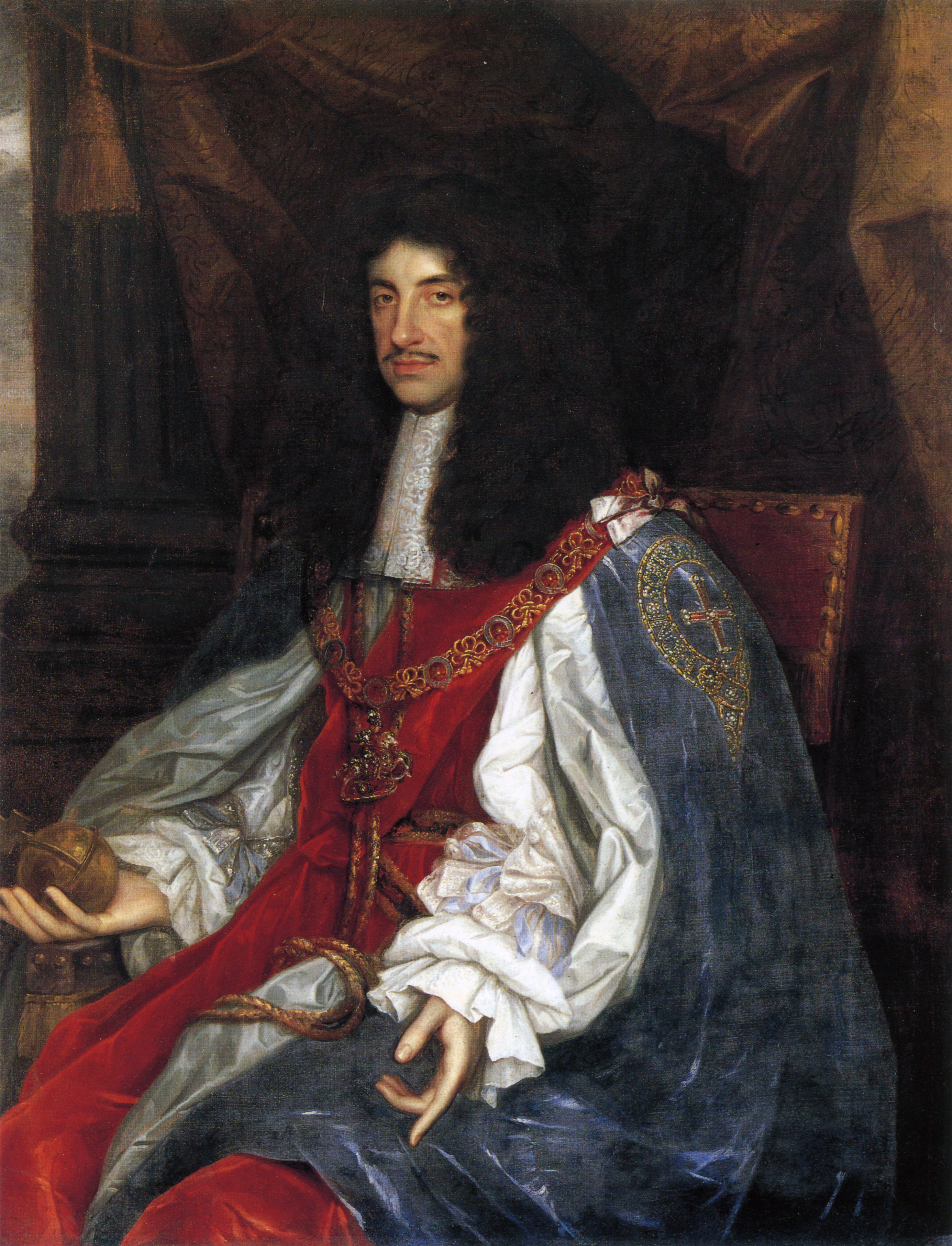 This PNG image has a thumbnail version at File: Charles II in garter robes.jpg. Generally, the thumbnail version should be used when displaying the file from Commons, in order to reduce the file size of thumbnail images. Any edits to the image should be based on this PNG version in order to prevent generational loss, and both versions should be updated. See here for more information. National Portrait Gallery: NPG 531 While Commons policy accepts the use of this media, one or more third parties have made copyright claims against Wikimedia Commons in relation to the work from which this is sourced or a purely mechanical reproduction thereof. This may be due to recognition of the "sweat of the brow" doctrine, allowing works to be eligible for protection through skill and labour, and not purely by originality as is the case in the United States (where this website is hosted). These claims may or may not be valid in all jurisdictions. As such, use of this image in the jurisdiction of the claimant or other countries may be regarded as copyright infringement. Please see Commons:When to use the PD-Art tag for more information.See User:Dcoetzee/NPG legal threat for original threat and National Portrait Gallery and Wikimedia Foundation copyright dispute for more information. This tag does not indicate the copyright status of the attached work. A normal copyright tag is still required. See Commons:Licensing.